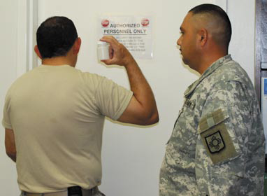 Master Sgt. Urbano Sosa demonstrates the job of an observer for a UPL collection exercise. As observer, maintaining a direct line of sight with a specimen bottle at all time helps to ensure a proper chain of custody and prevents tampering or altering of a specimen. The person assigned to observe your pee stream is also known as the "Meat Gazer" for males & "Vag Vulture" for females.